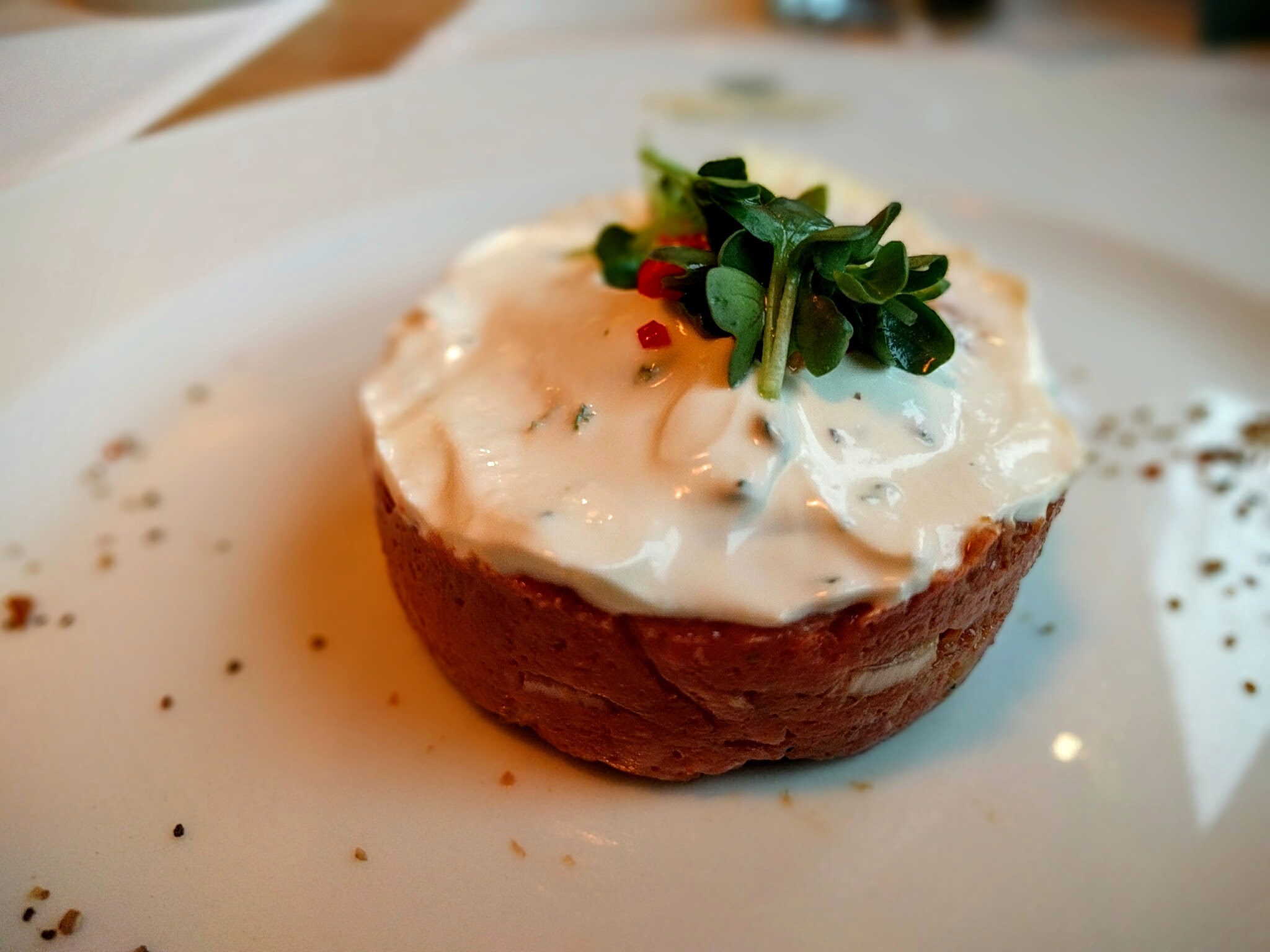 Steak tartare with sauce tatare and watercress